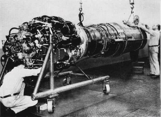 A Pratt & Whitney J48 turbojet. It was a license-built Rolls-Royce RB.44 Tay, which was essentially an (optionally) afterburning version of the RR Nene. It saw little use in the United Kingdom, but the design was licensed by Pratt & Whitney as the J48 and saw extensive use in several versions of the Grumman F9F Panther and the Lockheed F-94 Starfire, and by Hispano-Suiza as the Verdon which was used in the Dassault Mystère IV.